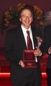 Saul Perlmutter receiving the Shaw Prize for Astronomy 2006. Cropped from [1] on the English Wikipedia. The Original picture was released into the Public Domain, I likewise release any rights I have from editing it into the Public Domain.